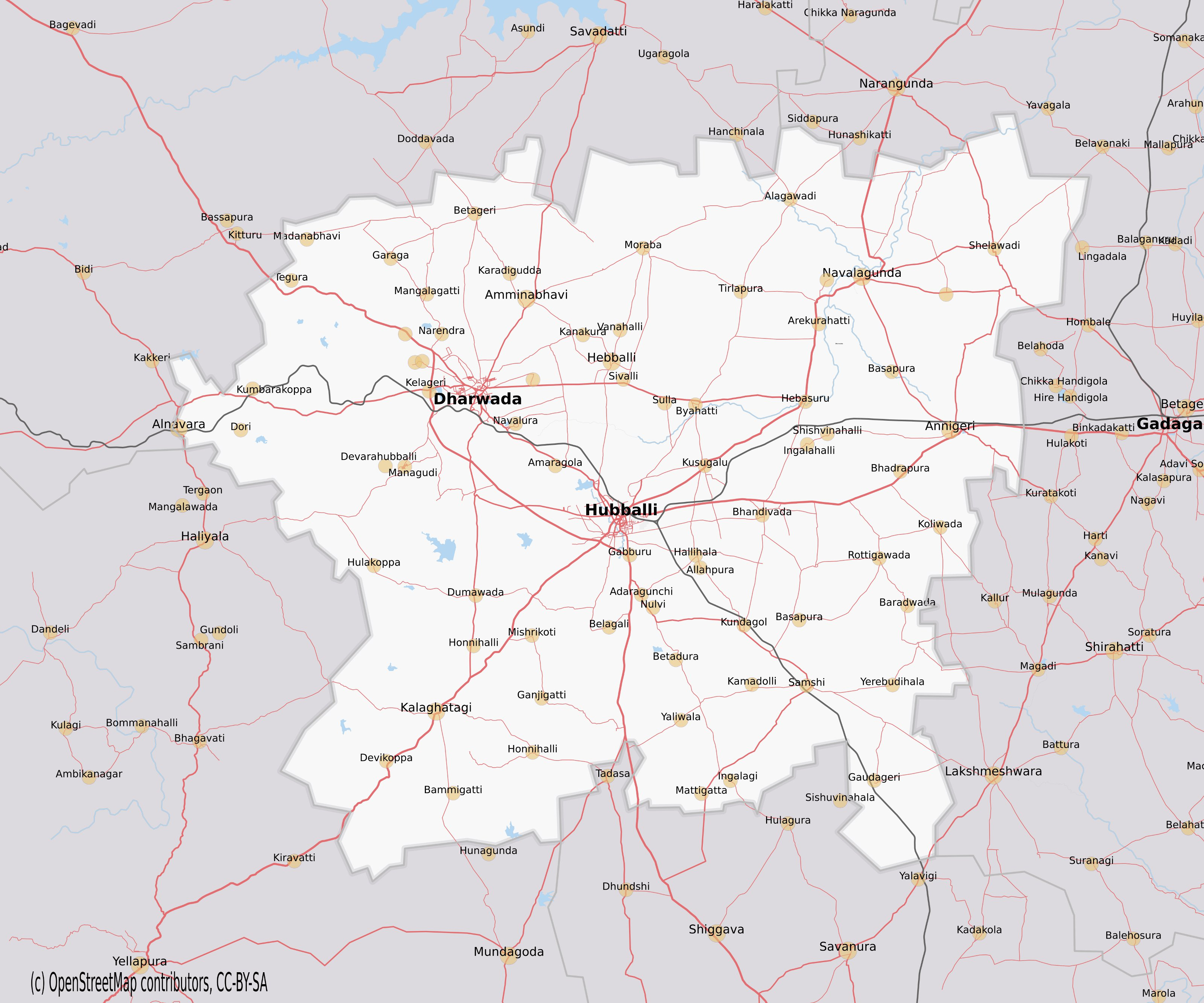 District map of Dharwada district, showing cities, towns and many villages, with road and rail connections.